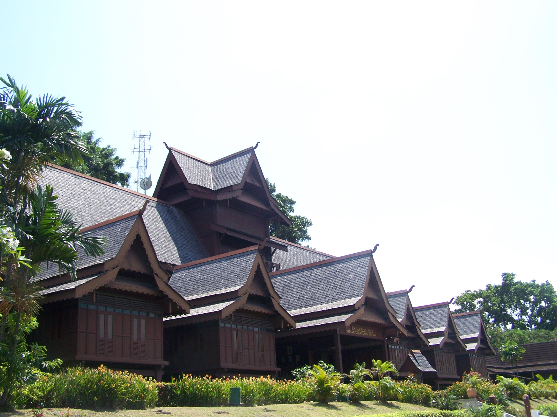 The Melaka Sultanate Palace (a replica of the Melaka Sultan's palace during the period of the Melaka Sultanate) is located at the foot of St Paul's Hill. The replica was built from information and data obtained from the Malay Annals. These historical documents had references to the construction and the architecture of palaces during the era of Sultan Mansur Syah, who ruled from 1456 to 1477.